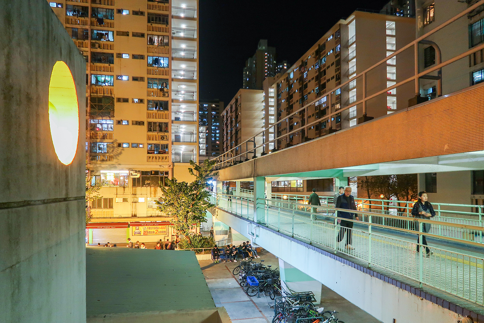 Wo Che Estate Bridge access